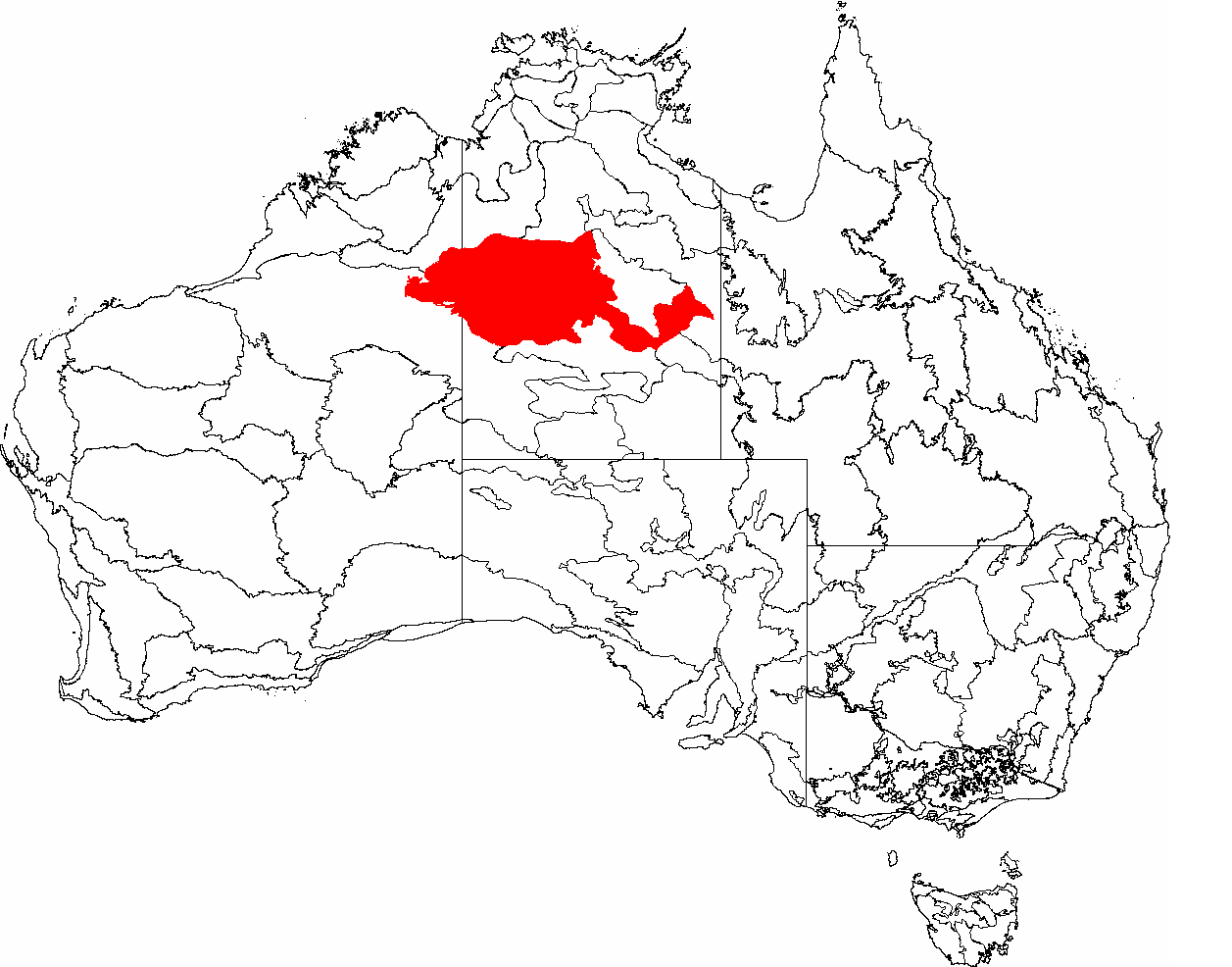 This is a map of the Interim Biogeographic Regionalisation of Australia (IBRA), with state boundaries overlaid. The Tanami region is shown in red.